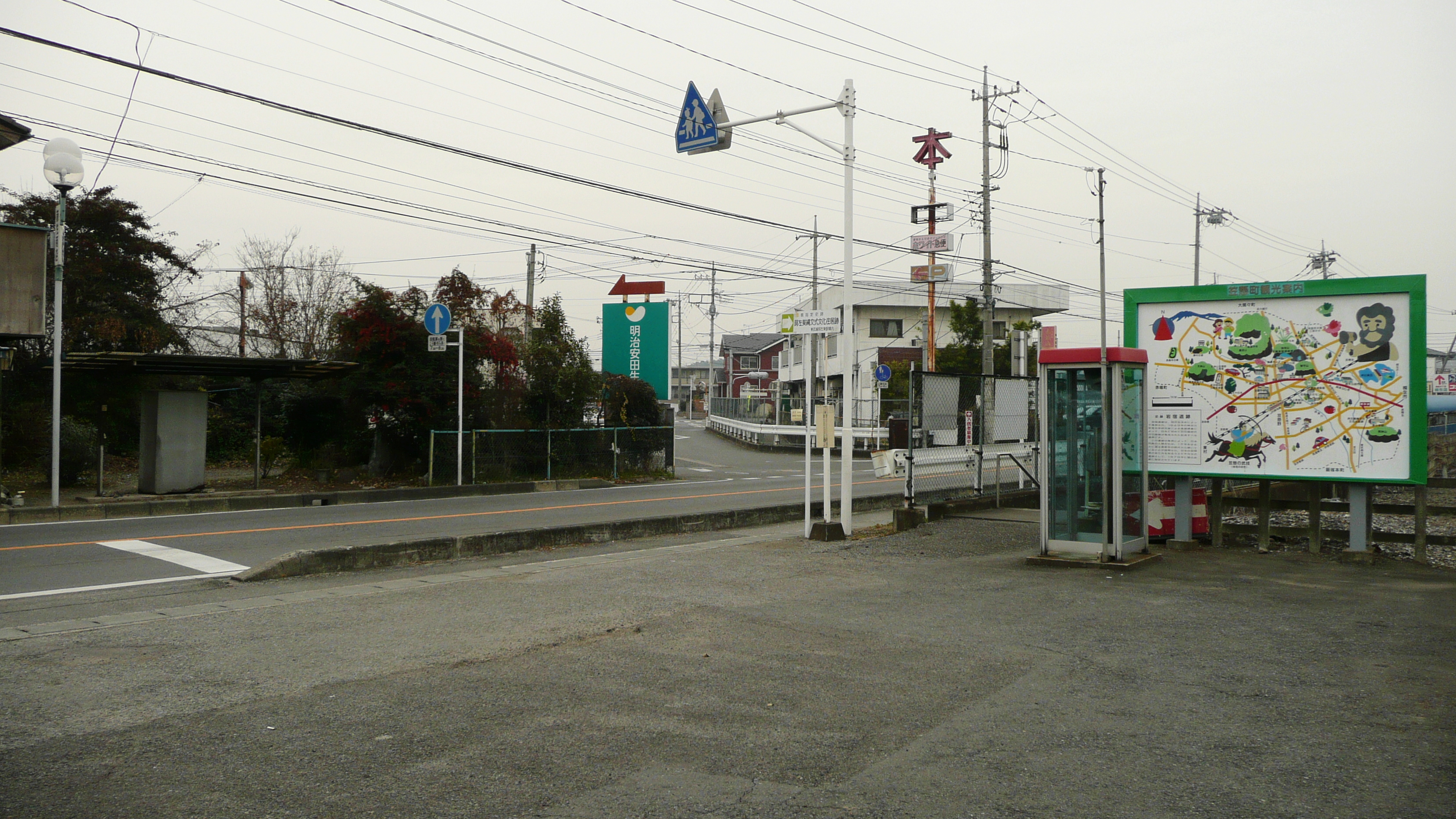 In front of Azami station,Tobu Kiryu Line.東武桐生線阿左美駅・駅前